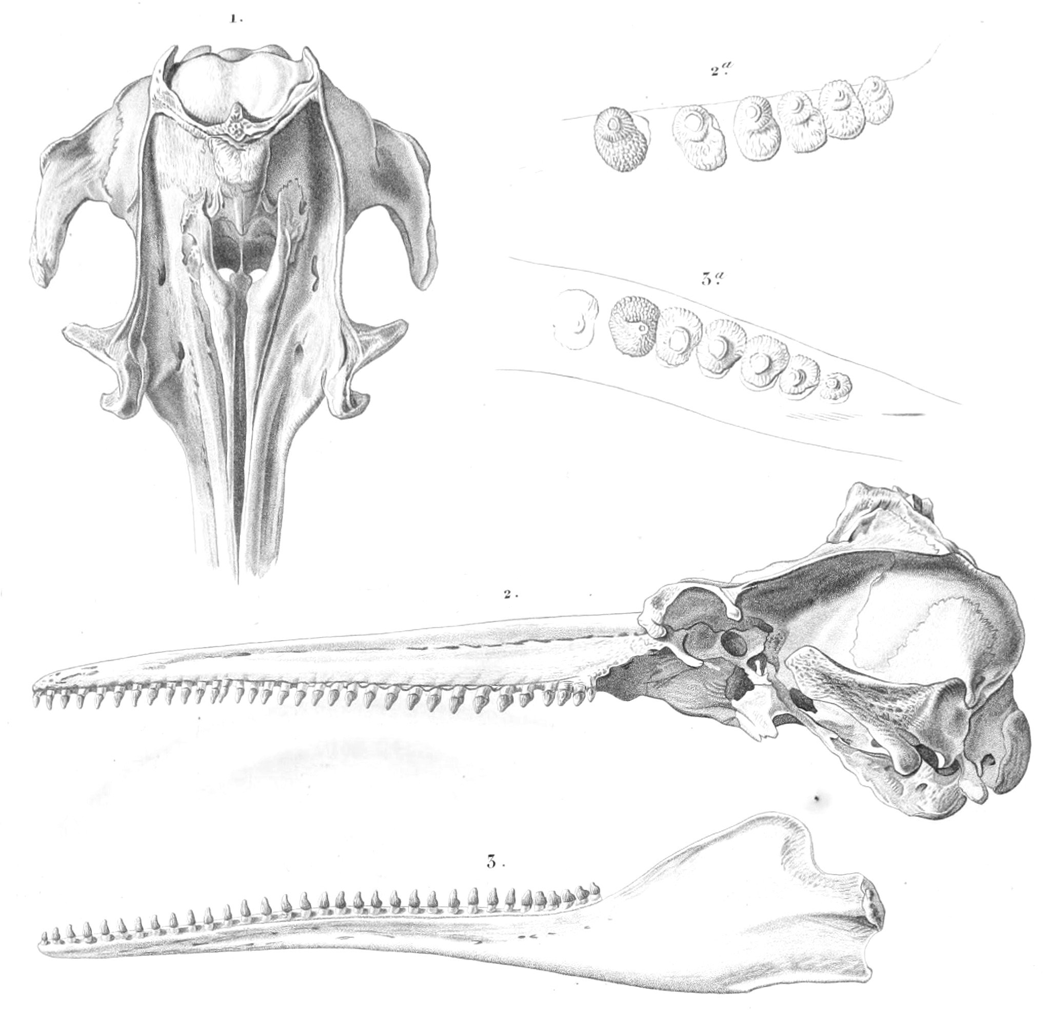 « Inia boliviensis » = Inia geoffrensis boliviensis (Subspecies of Amazon river dolphin) - skull